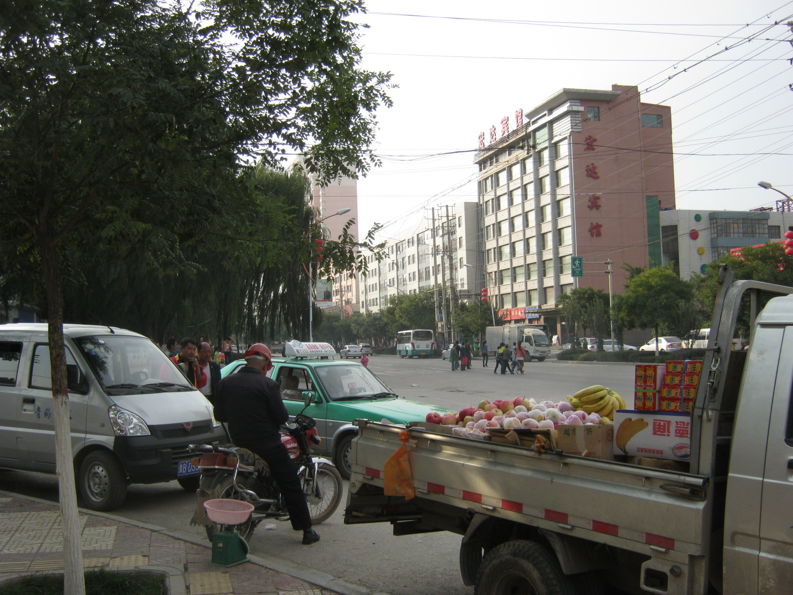 PingAn